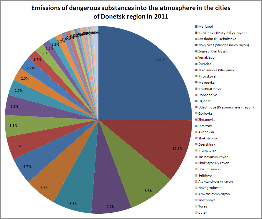 According to the Express Edition of the Main Department of Statistics in the Donetsk region № 71 dated 21.03.2012, the "emissions of pollutants and greenhouse gas emissions from stationary sources in 2011"